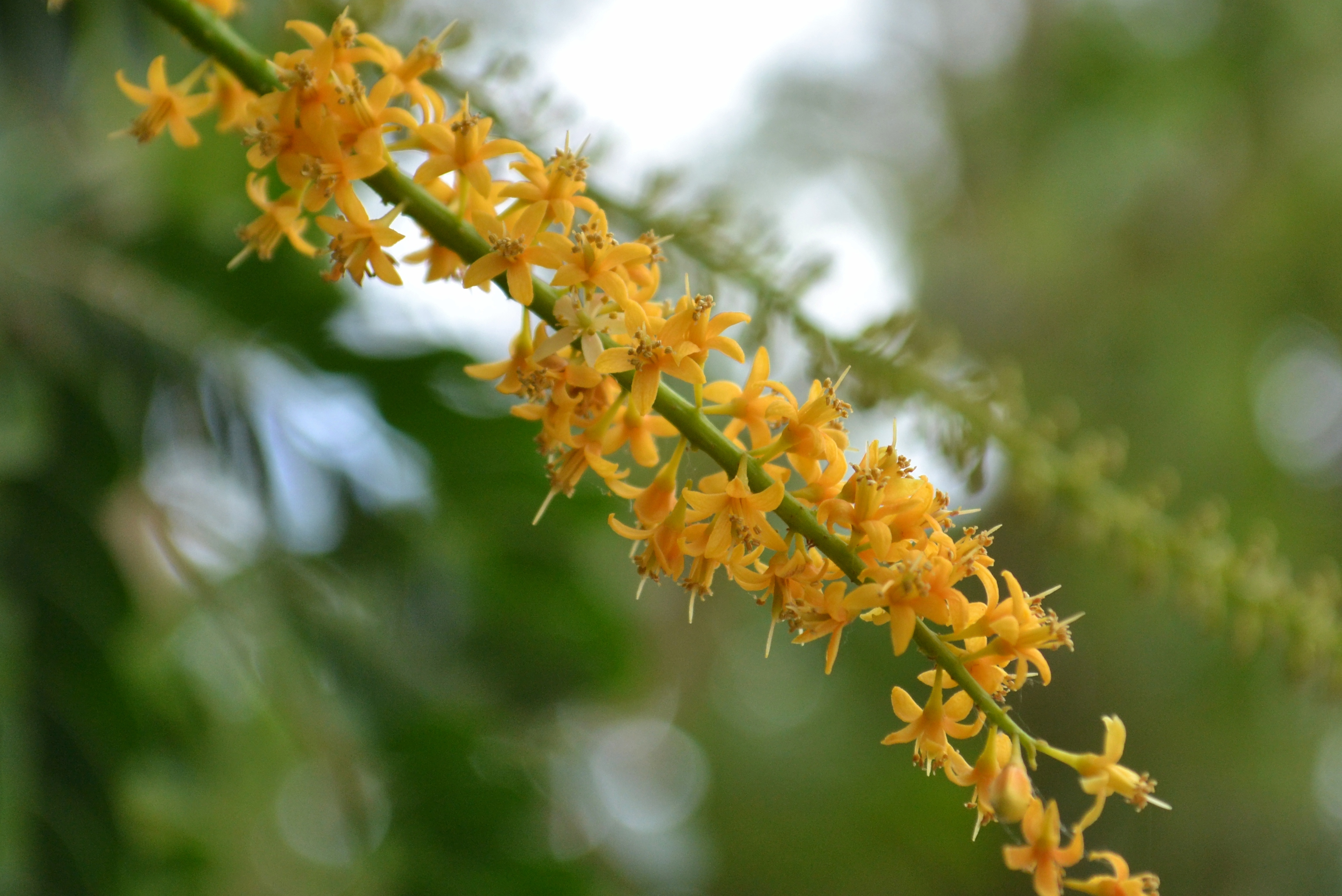 The Red Bead Tree